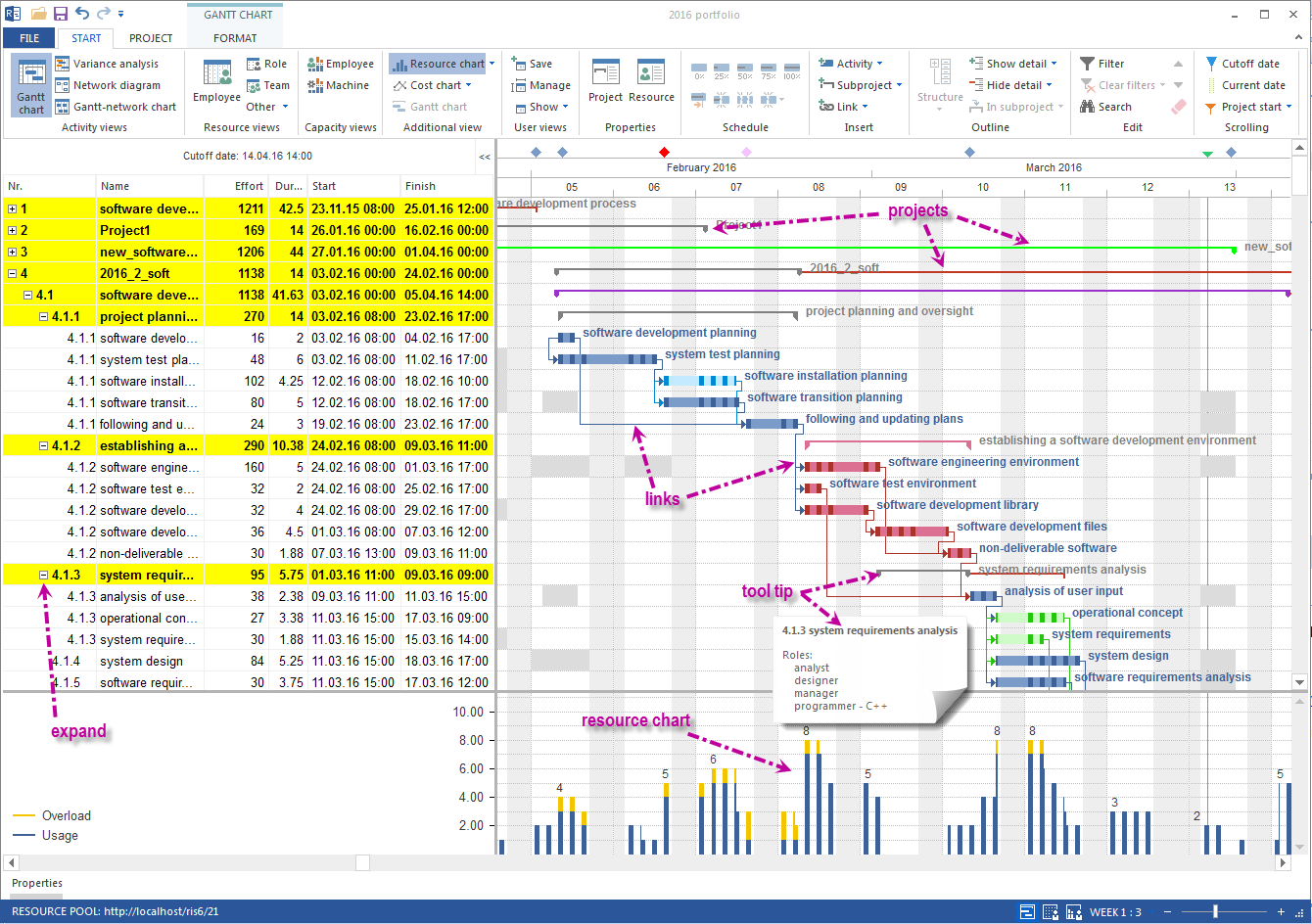 Rillsoft Project 6.1 showing the Gantt chart of the project